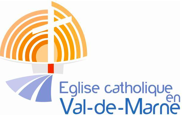 Logo of diocese of Créteil in France.